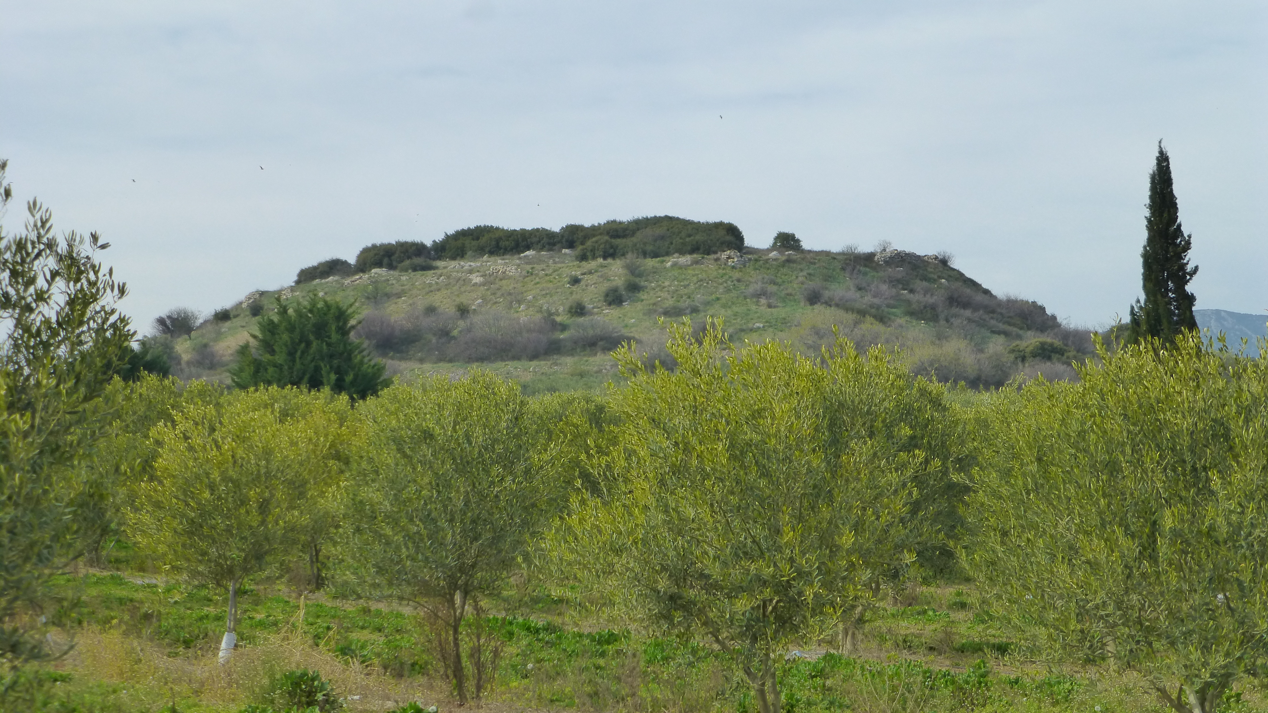 Kariani Castle, Pangaion, Kavala